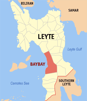 Map of Leyte showing the location of Baybay